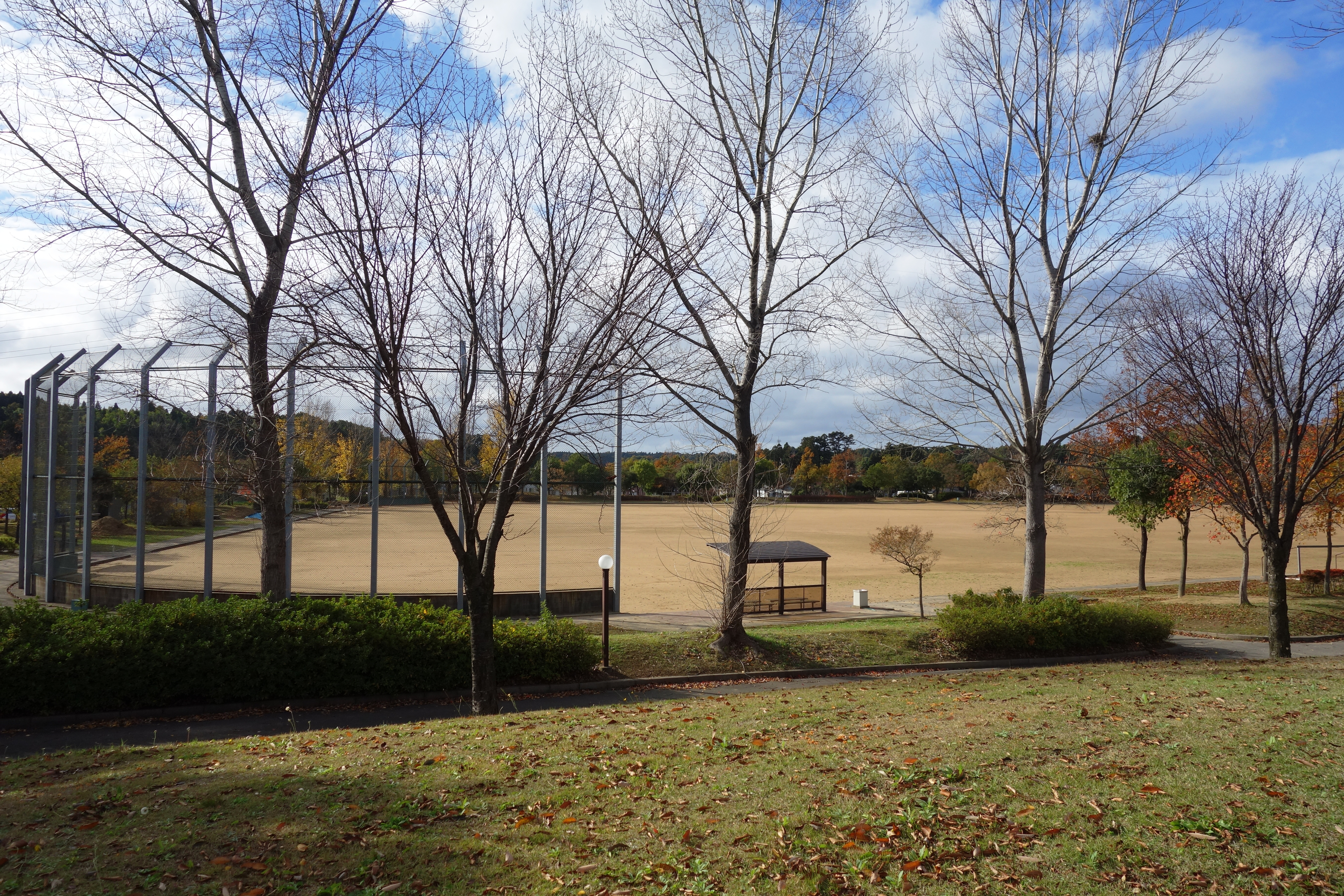 Trim Park Kanazu (Awara City, Fukui Pref., Japan)